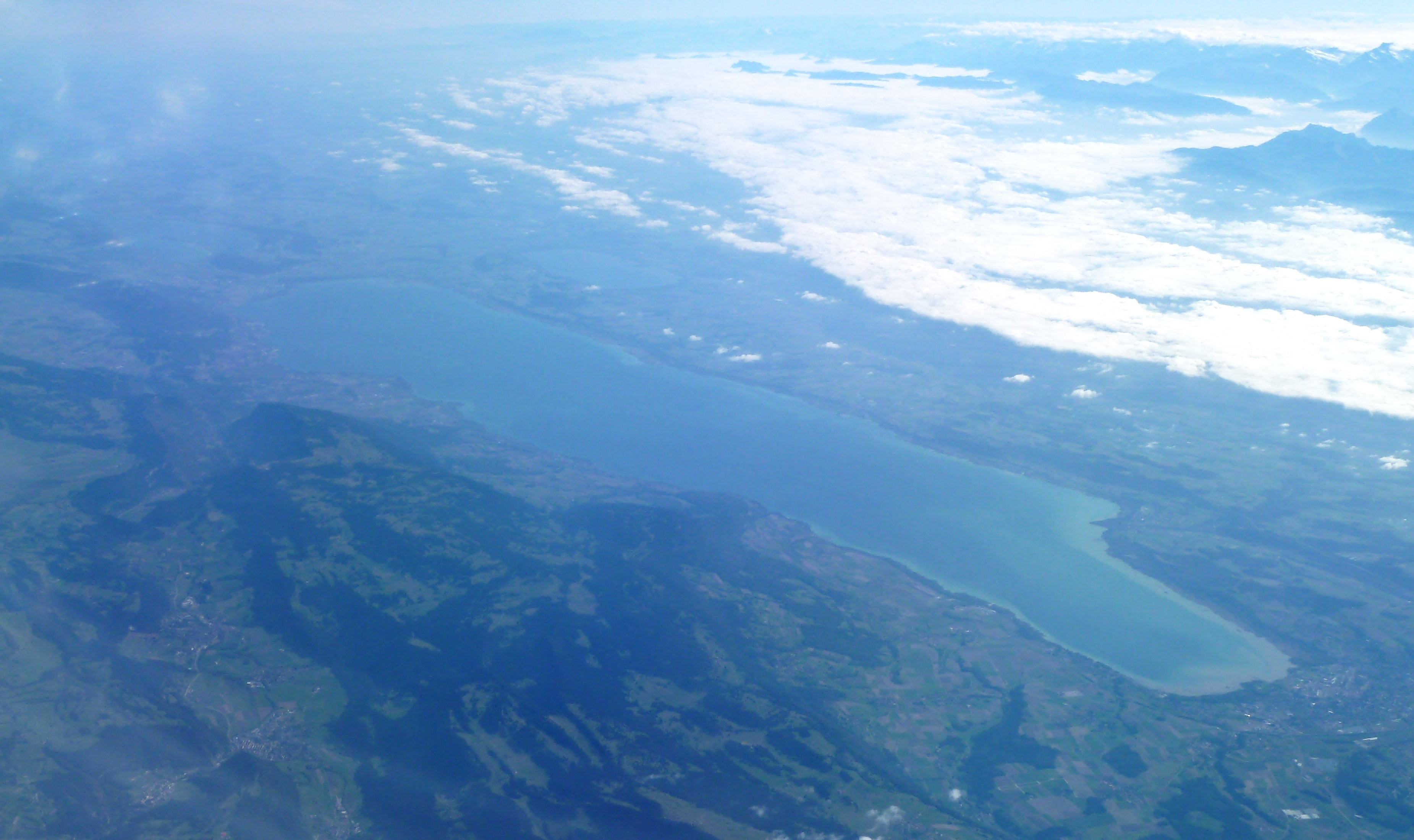 Lake Neuchatel